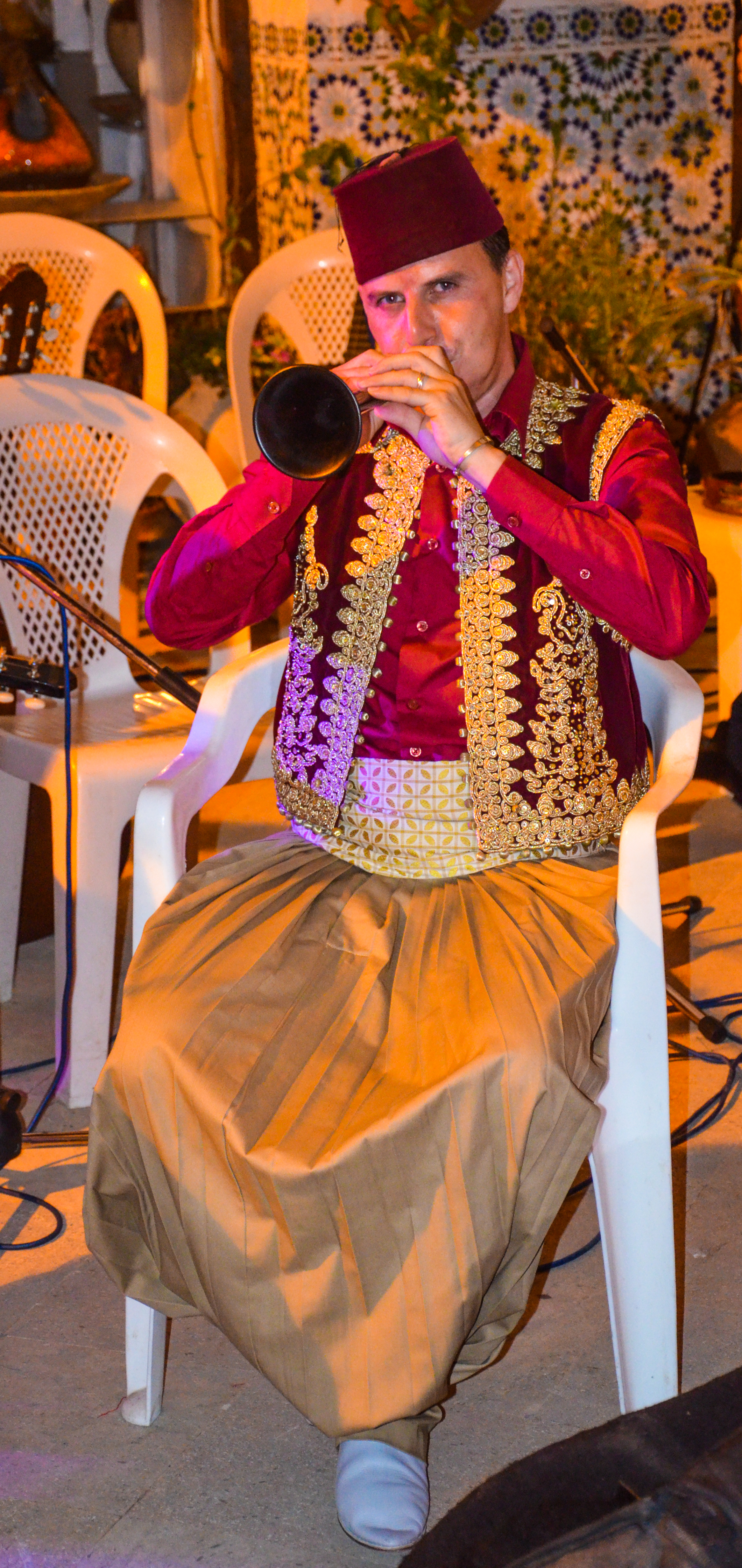 A member of the troupe Boutka plays at the Zorna This is an image of music and dance from Algeria